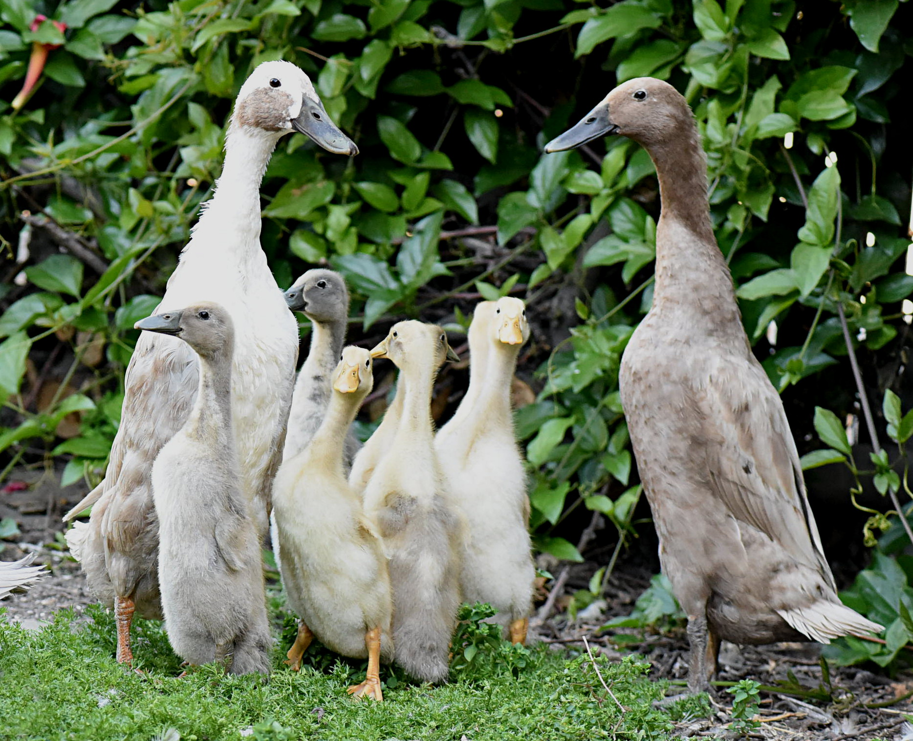 Indian runner ducks in my back yard.